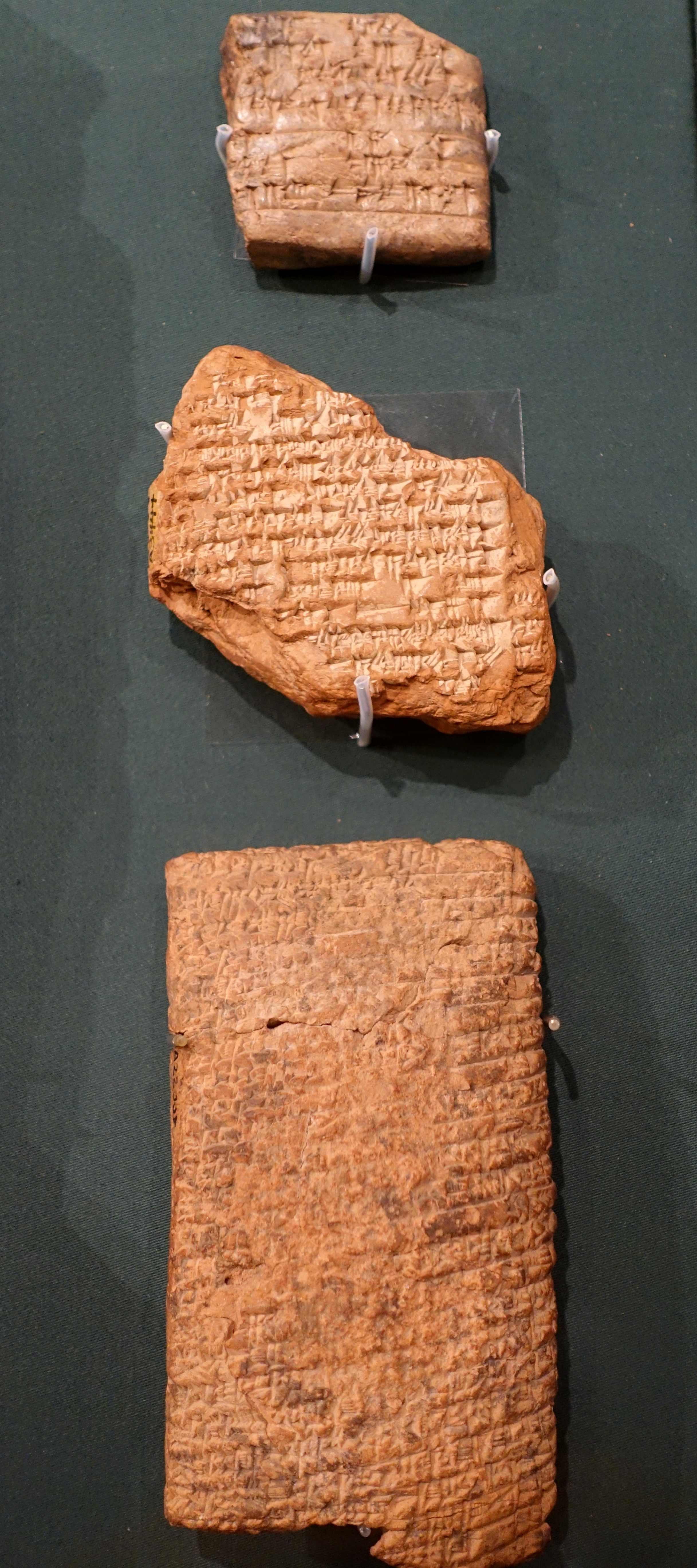 Tablets inscribed with an Old Babylonian Gilgamesh fragment. Isin-Larsa Period. Exhibit in the Oriental Institute Museum, University of Chicago, Chicago, Illinois, USA. This work is old enough so that it is in the public domain.